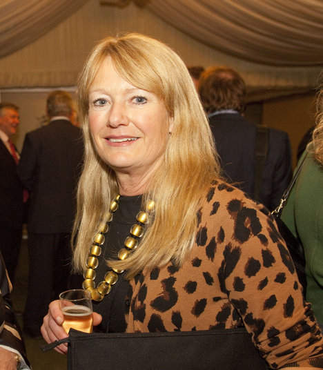 Bunny Guiness at the All-Party Parliamentary Gardening & Horticulture Group meeting - November 2011